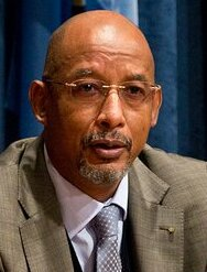 Ibrahim Assane Mayaki, CEO of the NEPAD Planning and Coordinating Agency, during a week of events in New York in October 2011 to mark the plan’s 10th anniversary.